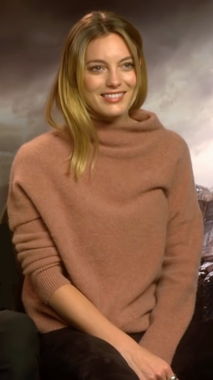 Mortal Engines Cast Go Speed Dating | MTV Movies We date Robert Sheehan, Leila George, Jihae, and Hera Hilmar as they reveal deleted scenes and funniest moments on set. Get social with MTV @ 💋 Twitter: 🍺 Instagram: 💅 Tumblr: 🍿 Facebook: 🎷 Official